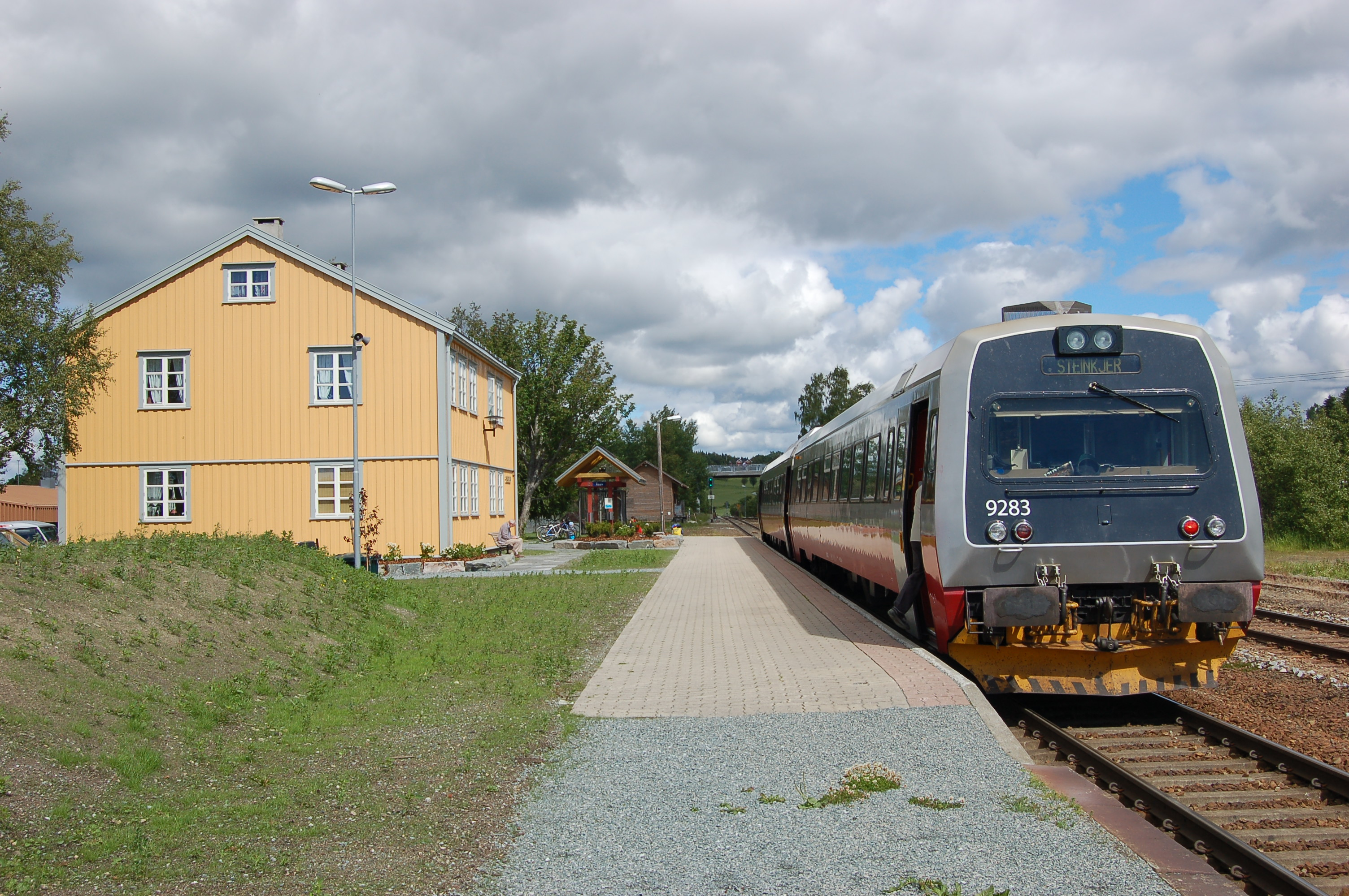 Åsen Station on Nordlansbanen, in Levanger, Norway; Norges Statsbaner type 92 diesel multiple unit commuter train.